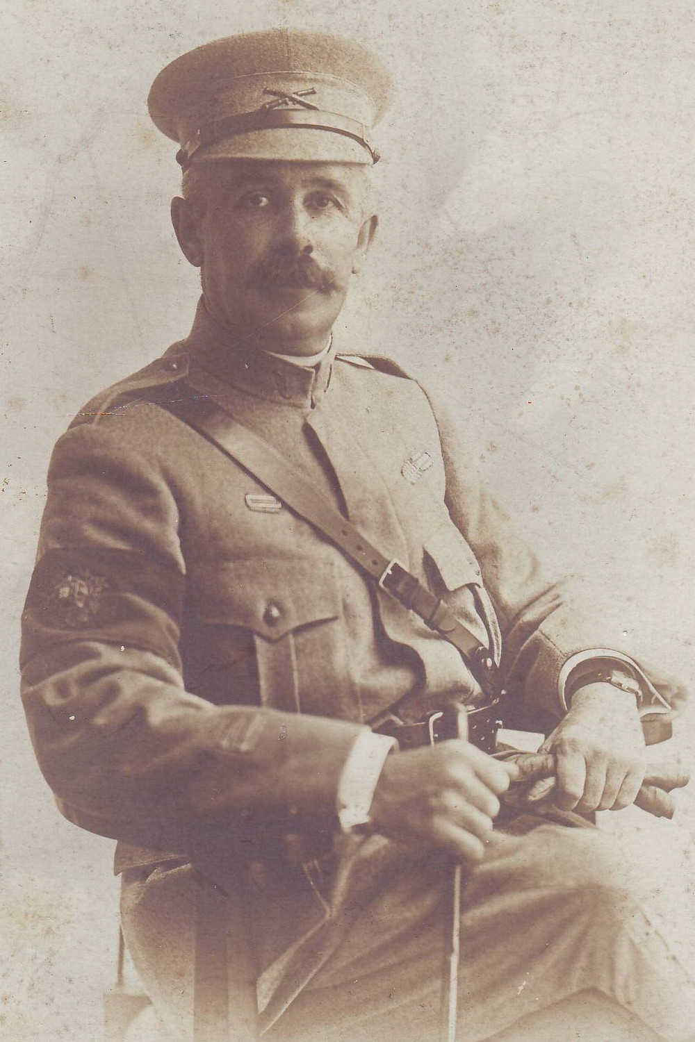 Artur Ivens Ferraz (1870-1933), Portuguese military officer, in 1923